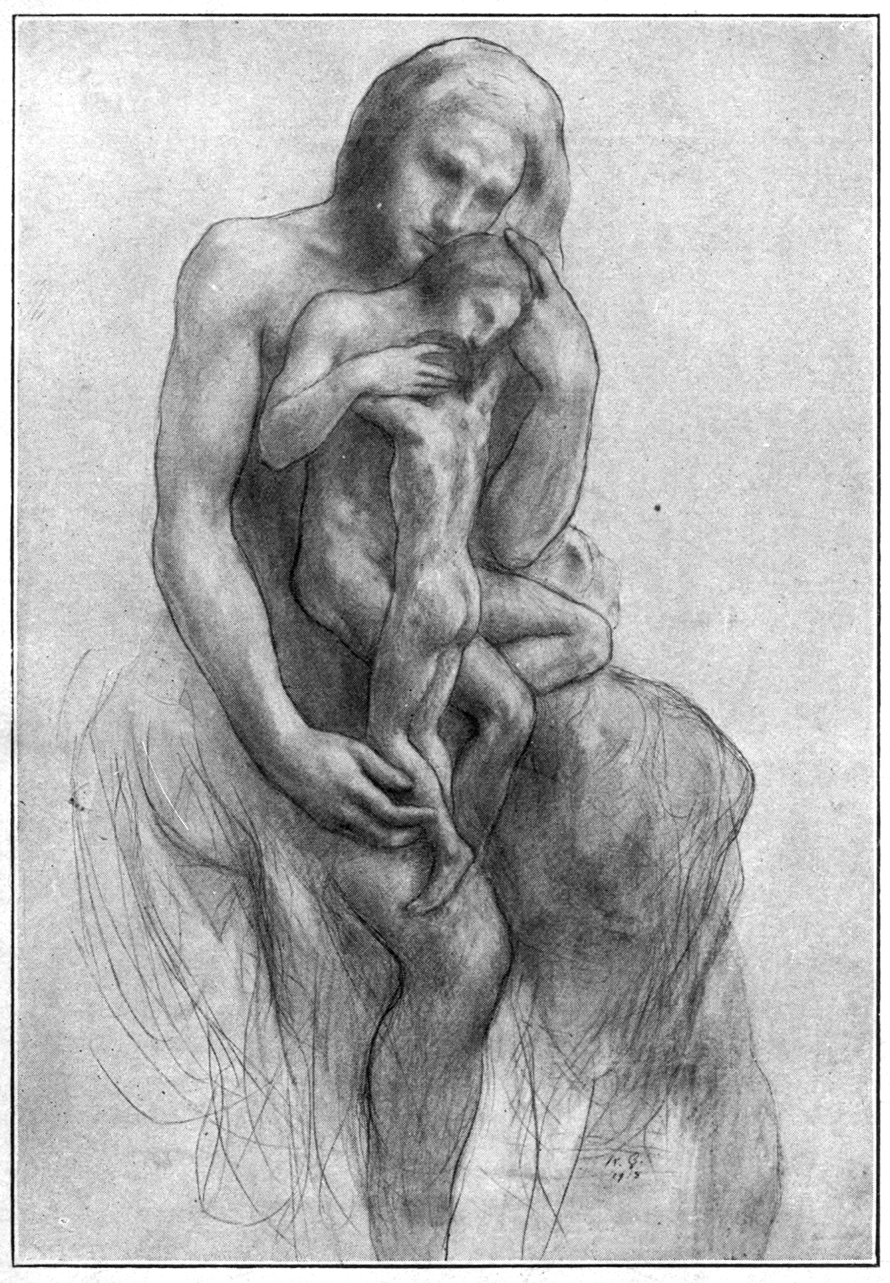 Illustration from The madman, his parables and poems, Gibran, Kahlil. New York: Knopf. 1918 (reprint?)